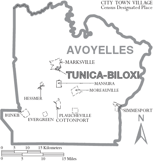 Map of Avoyelles Parish, Louisiana, United States with municipal boundaries